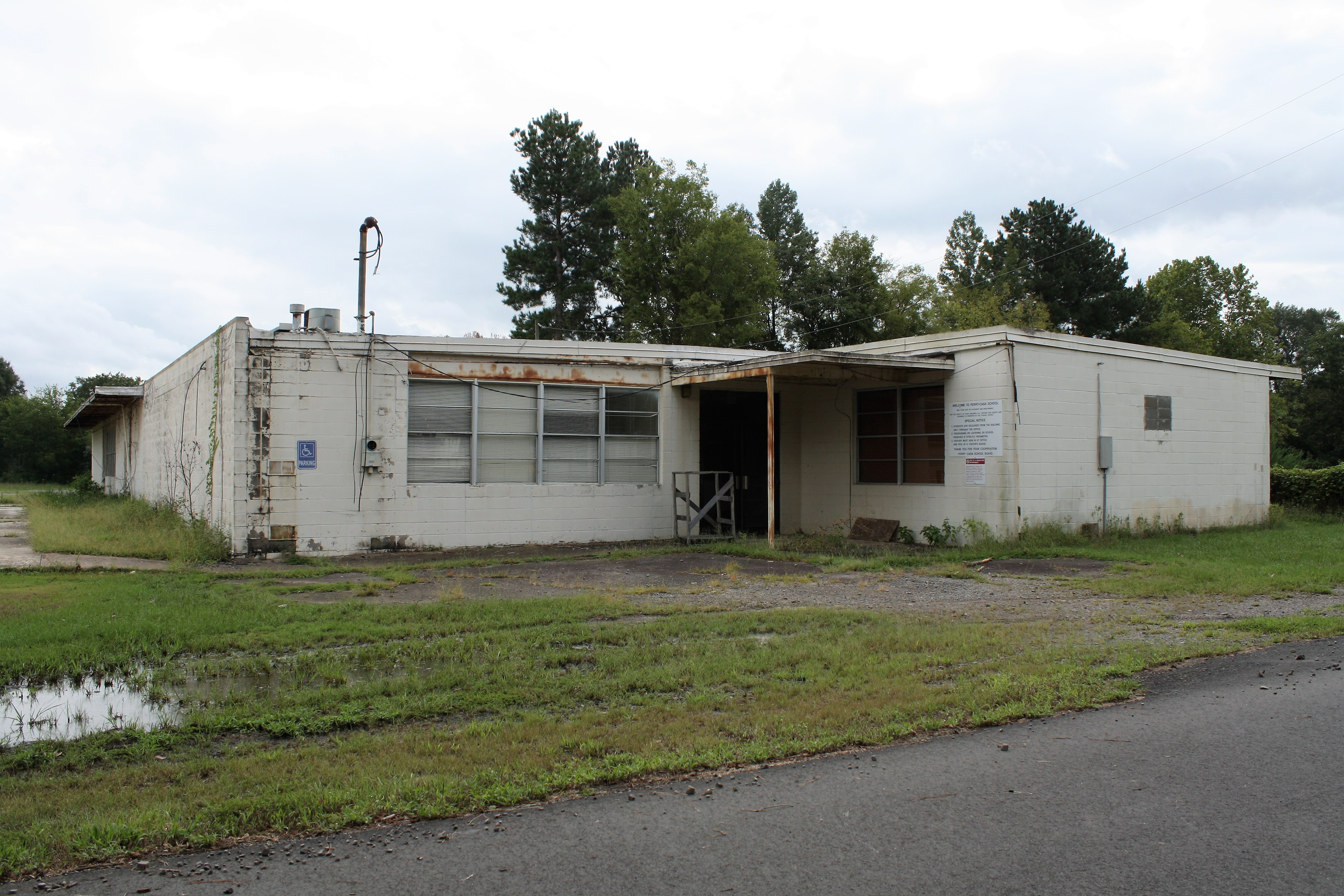 Former Perry-Casa High School at 114 S Maple Street in Casa, Arkansas